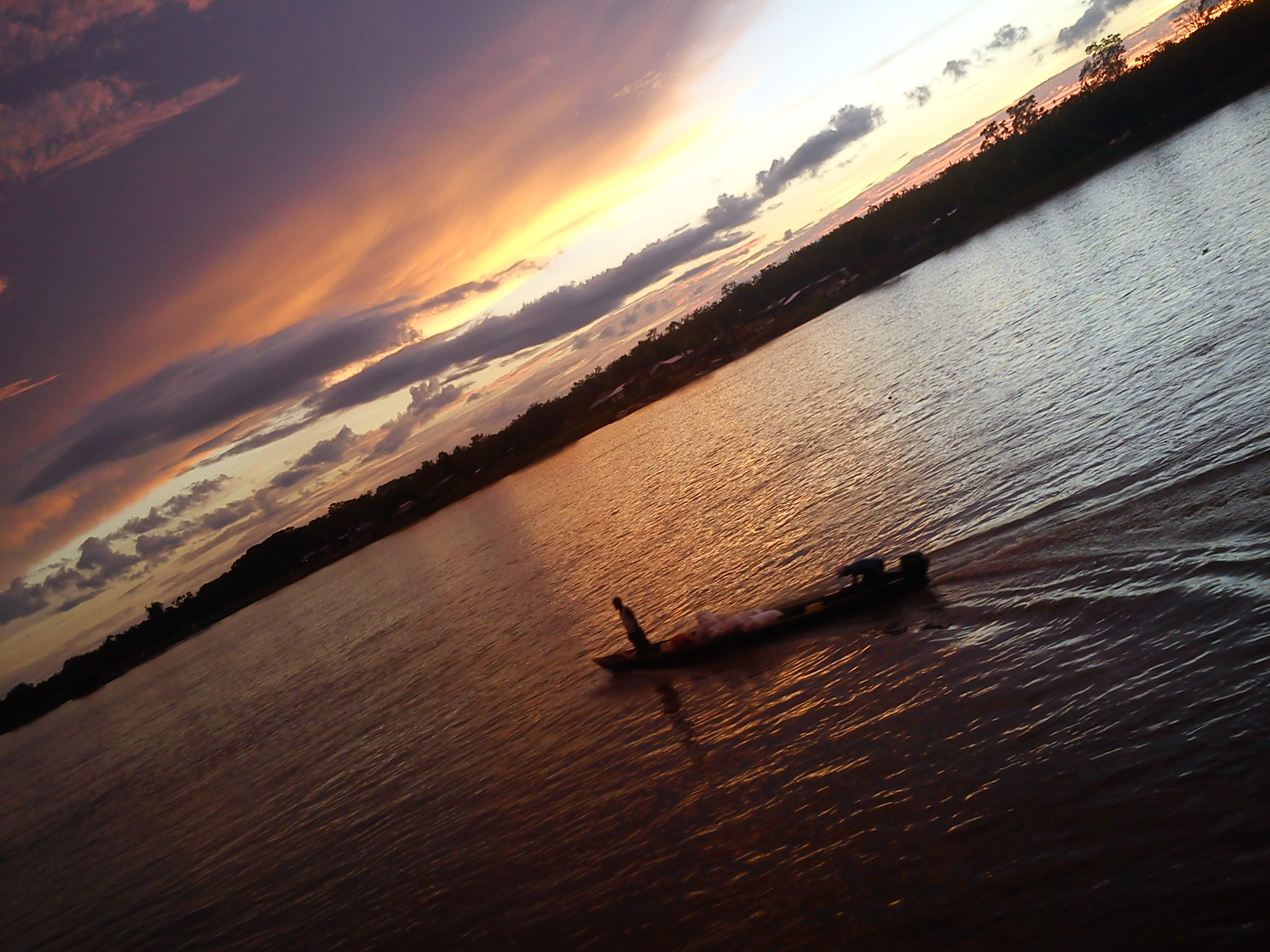 Paisaje en Quibdó